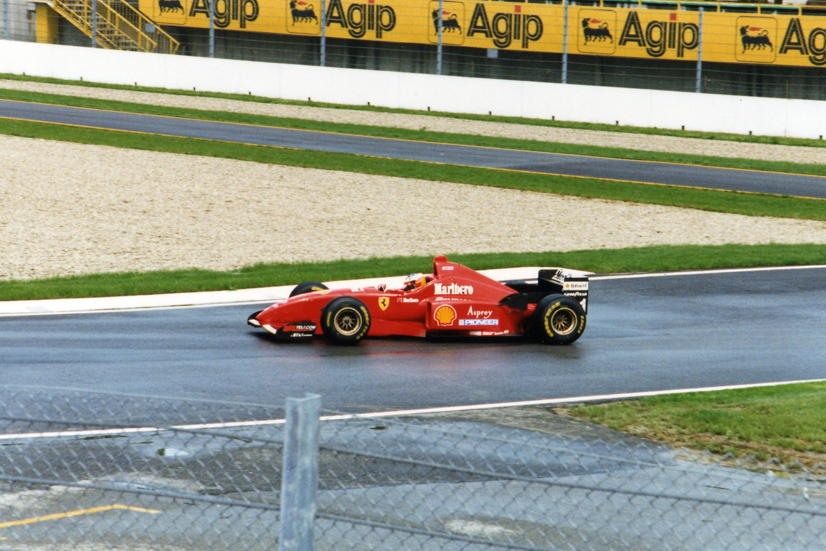 Michael Schumacher during free practice of 1996 San Marino Grand Prix.